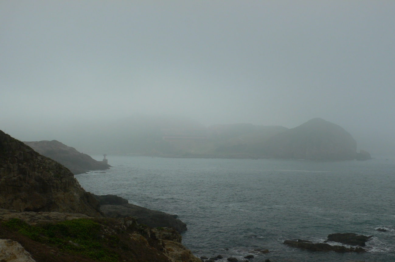 Fat Tong Mun Channel, at the north of an island called Tung Lung Chau in Hong Kong(The photo was taken at Tung Lung Chau)